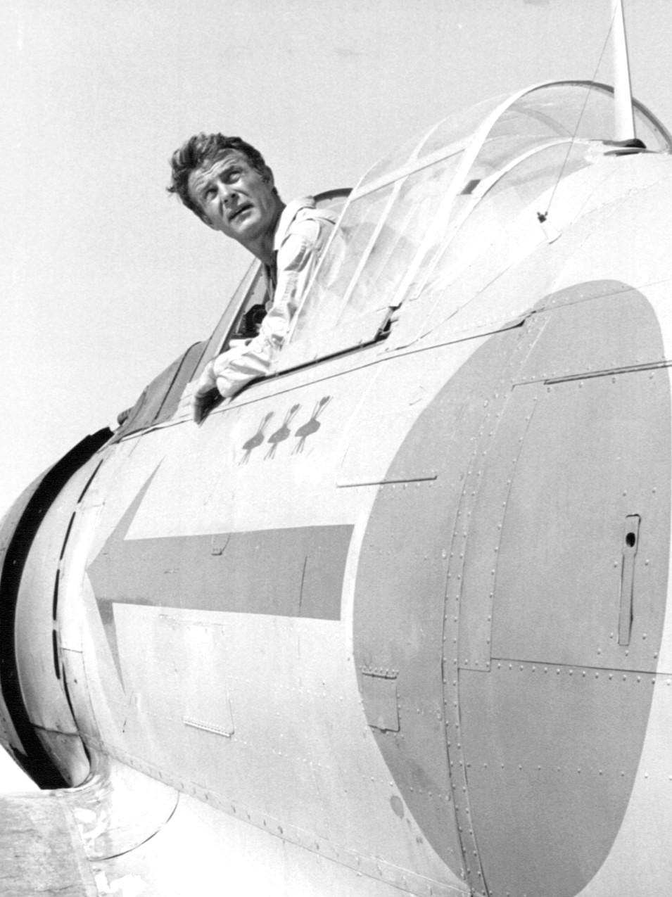 Photo of Robert Conrad as Pappy Boyington from the television series Baa Baa Black Sheep.